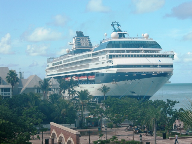 MV Galaxy at Key West Information about Galaxy may be found at IMO 9106297. A ship can change her name and flag state through time, but the IMO number remains the same through the hull's entire lifetime. Therefore, it's useful to identify a ship through her IMO number.